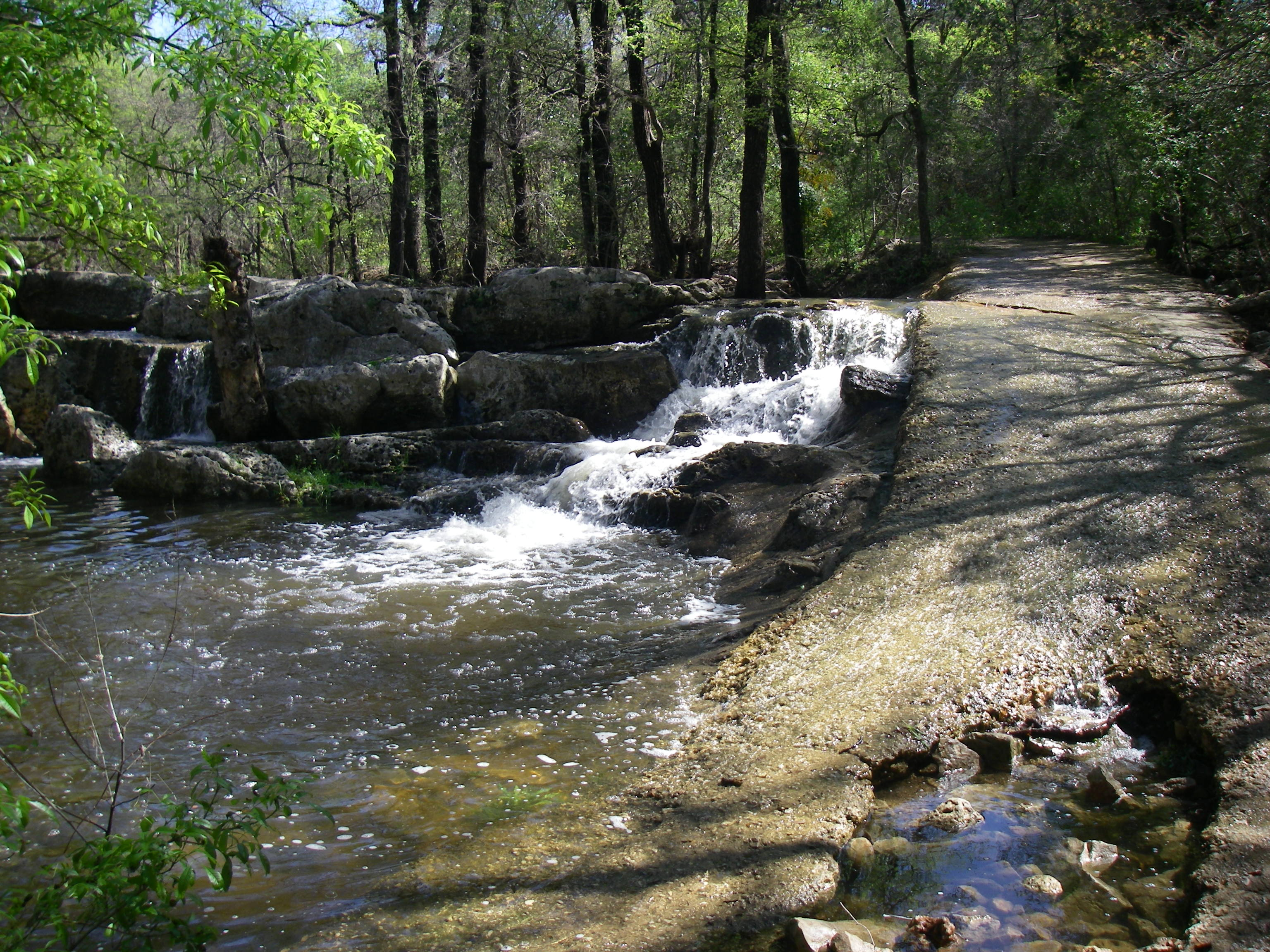 Photo of flowing water at Balcones District Park in Austin, TX. This park is located in the Waters Park area of Austin.